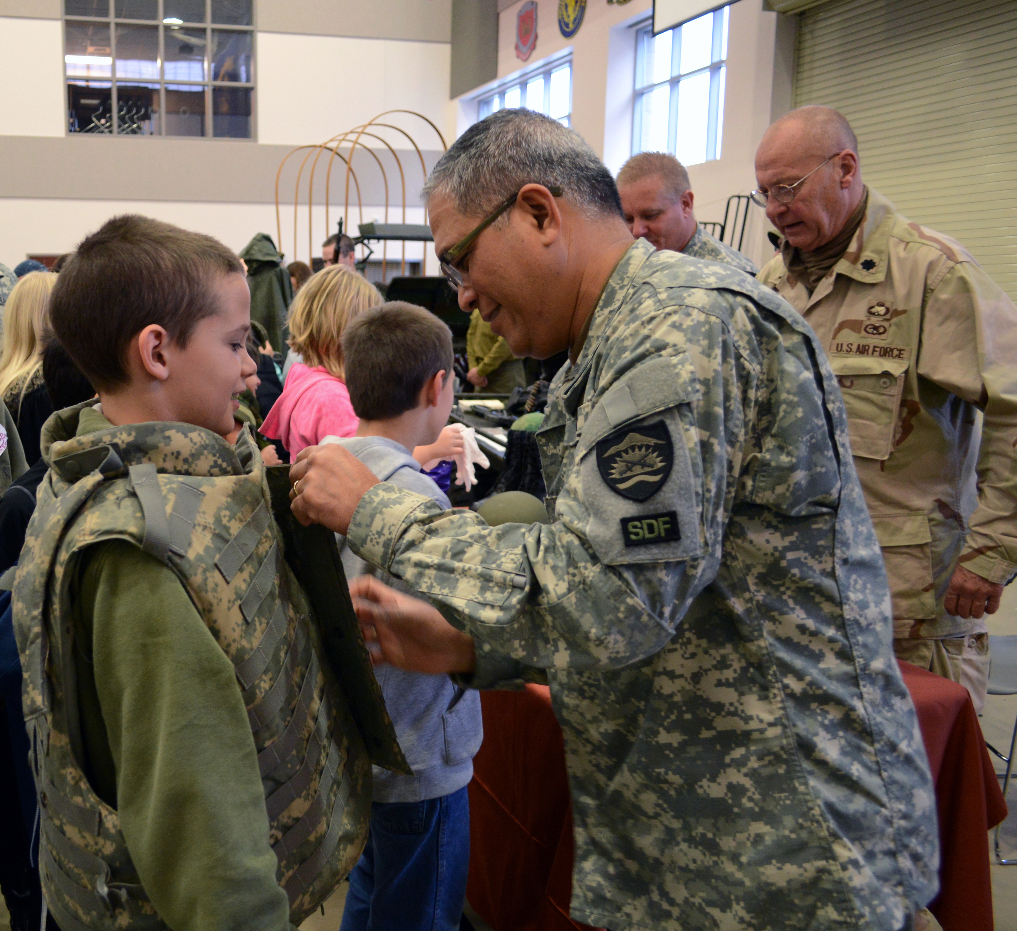 Staff Sgt. (ORSDF) Pedro Toledo (right), with the Oregon State Defense Force, helps a child try on body armor soldiers typically wear for training and deployments during the Veteran’s Day Open House at the Armed Forces Reserve Center at Camp Withycombe, in Clackamas, Ore., Nov. 7. (Photo by Sgt. 1st Class April Davis, Oregon Military Department Public Affairs)